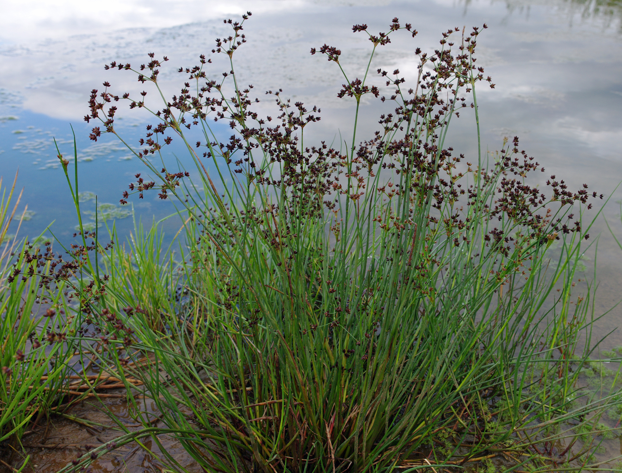 Habitus of fruiting Jointed Rush (Juncus articulatus).